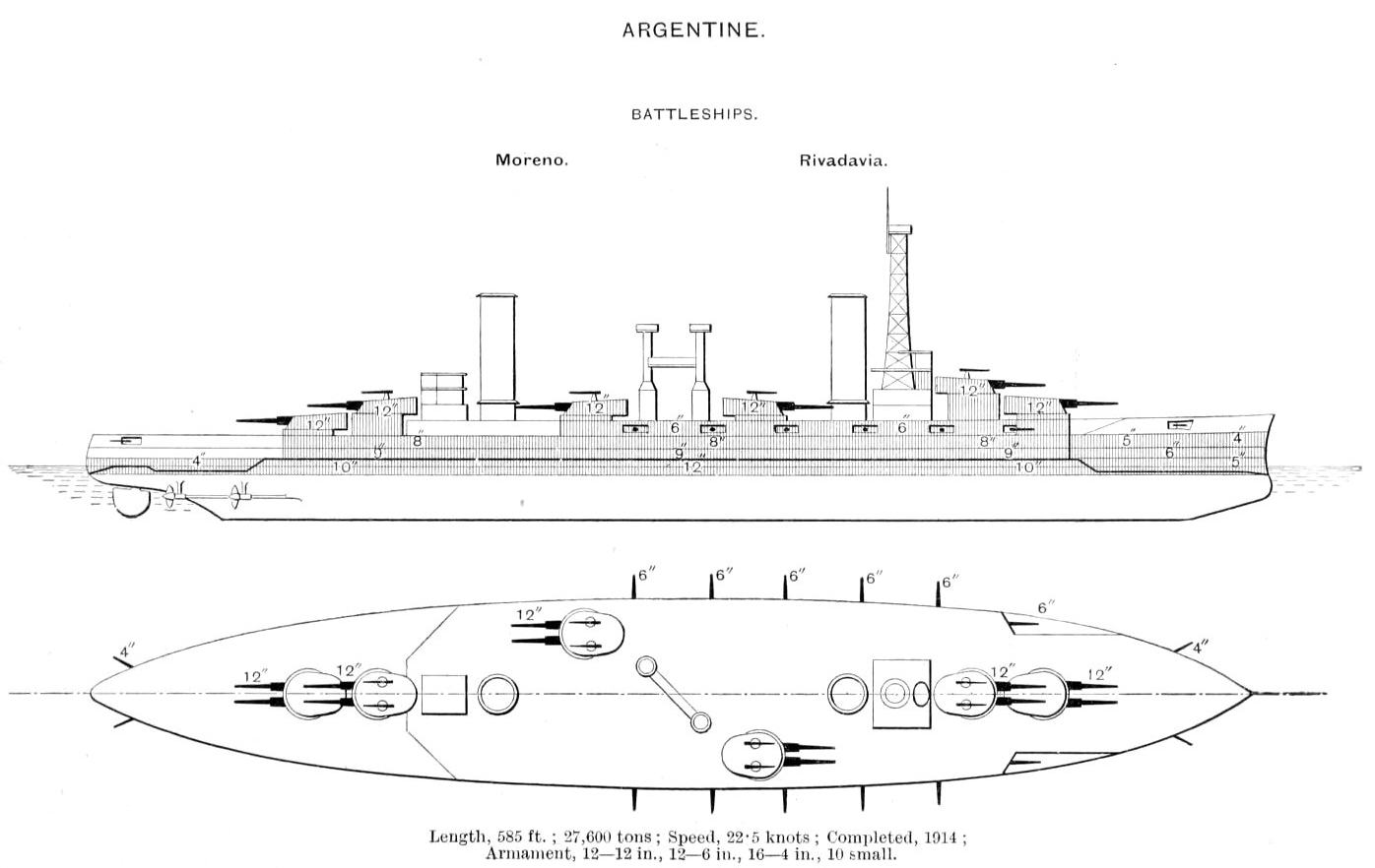 Plans for the Argentine Rivadavia-class battleships